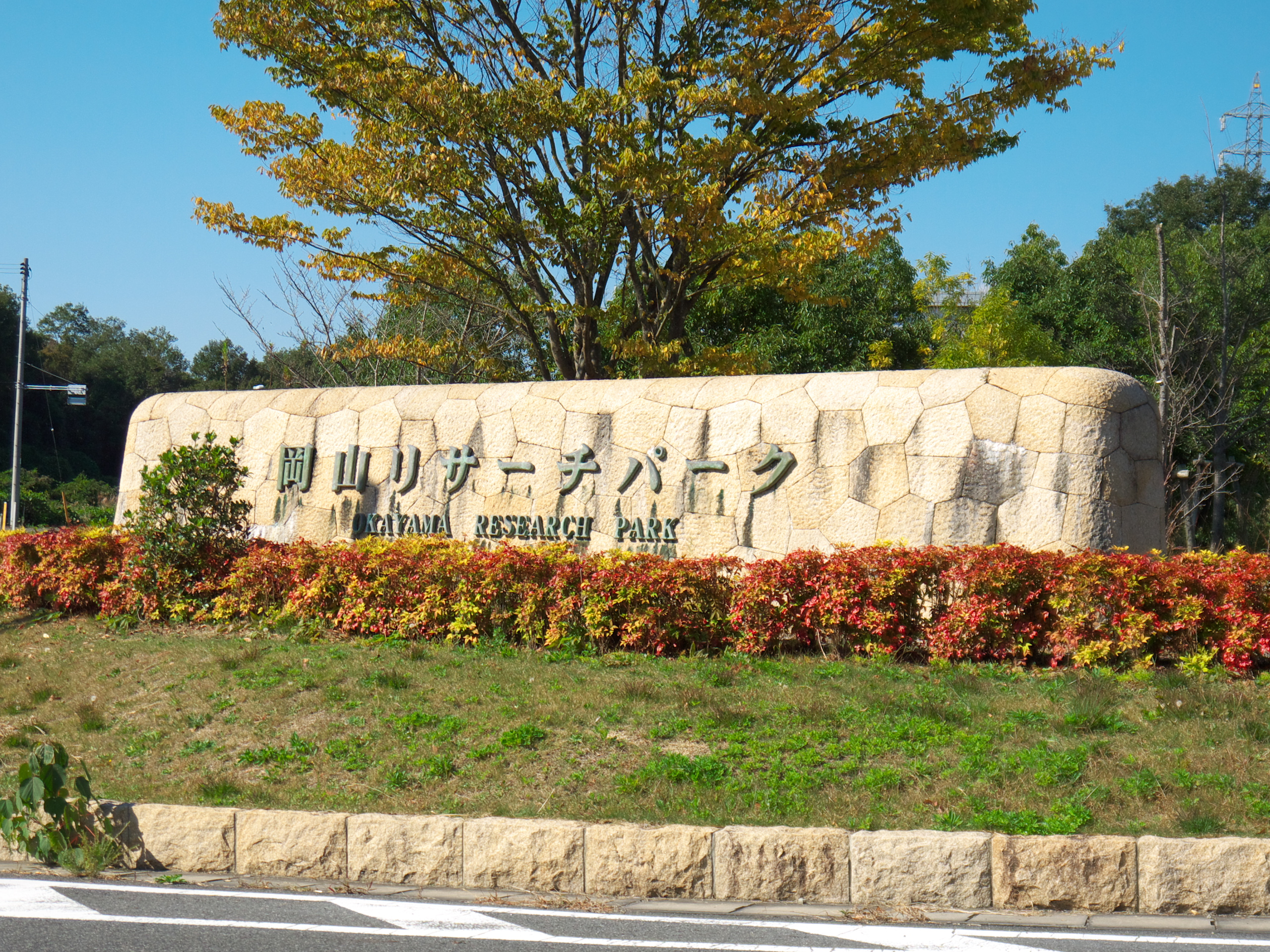 Entrance of the Okayama Research Park